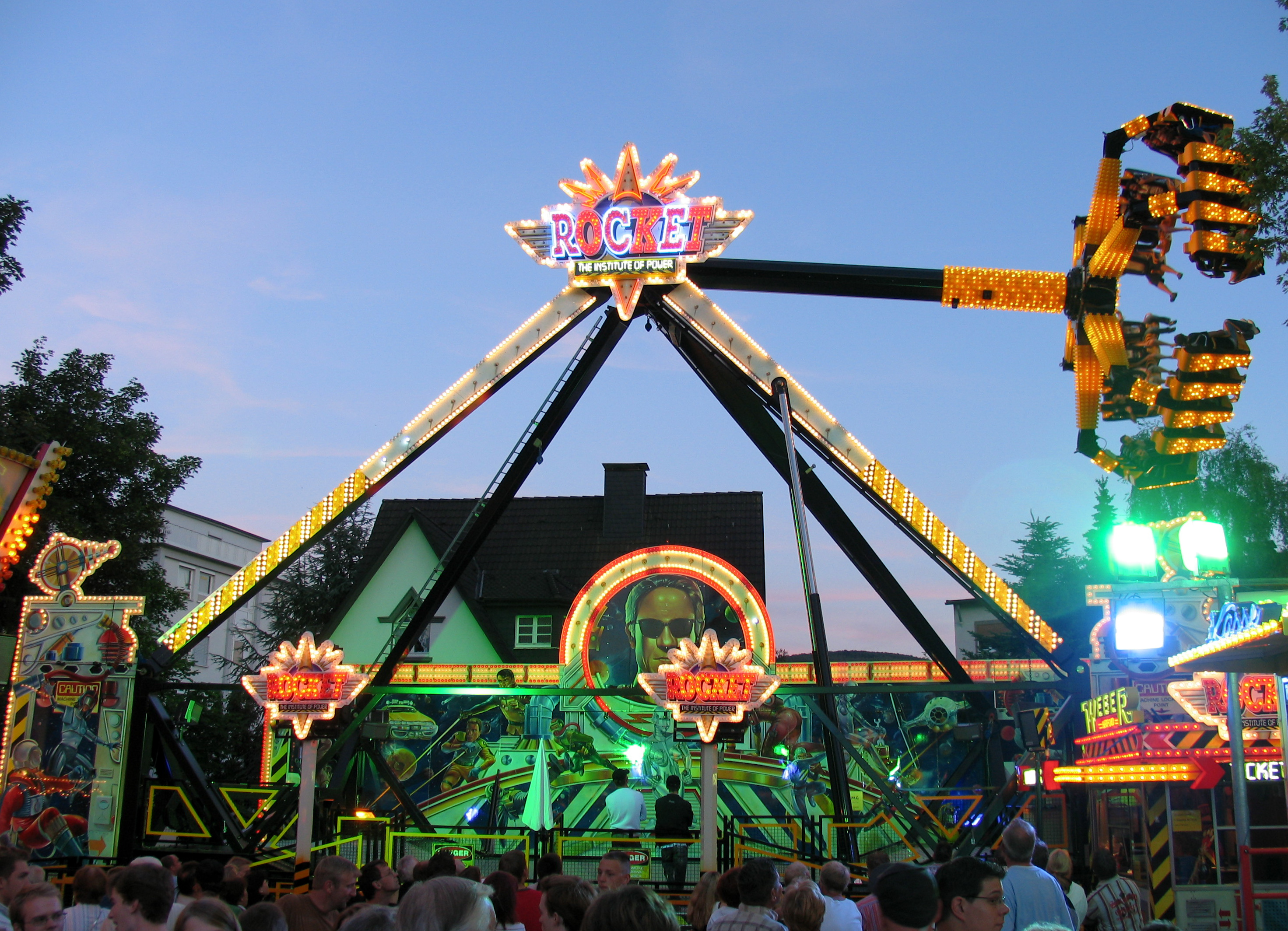 KMG Afterburner “Rocket” at Kilian Kirmes in Letmathe